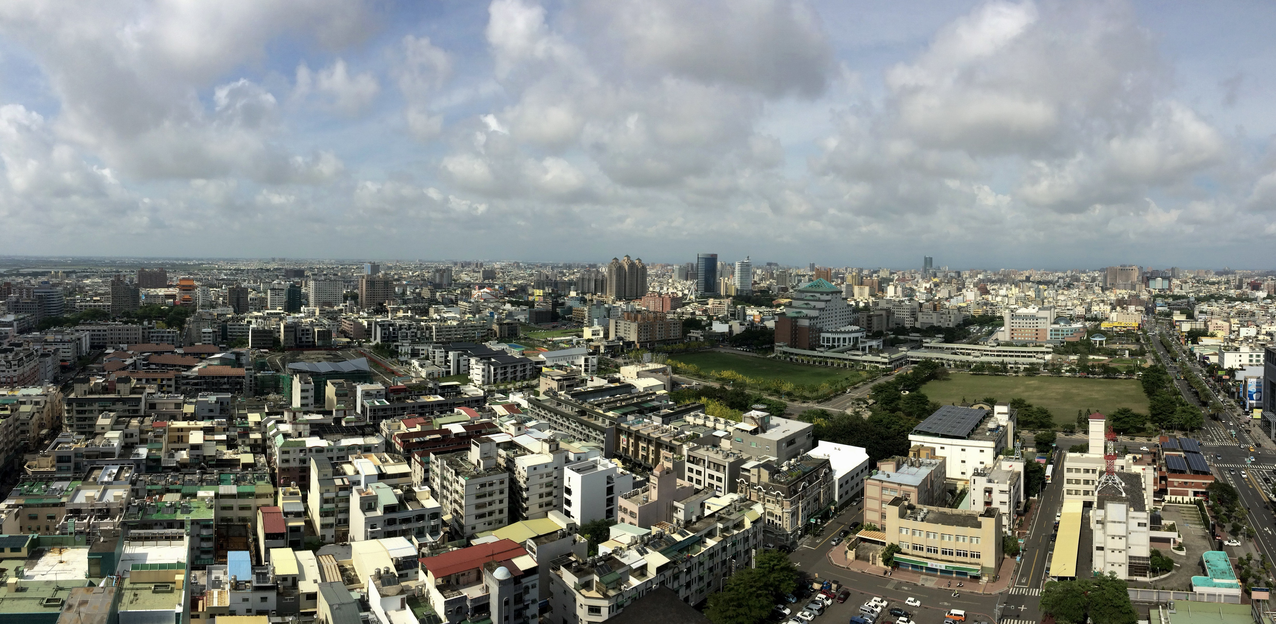 The day panorama of east downtown Tainan.